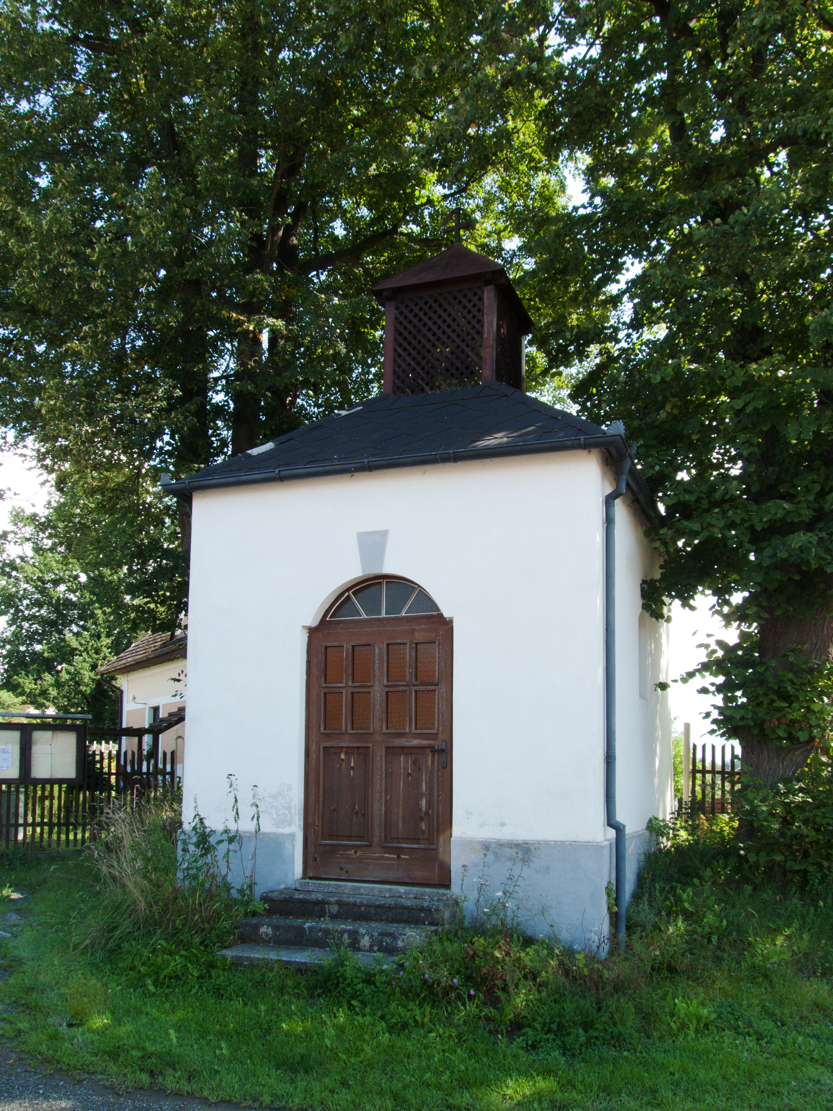 Chapel in the village of Smyslov, part of the town of Tábor, Tábor District, Czech Republic